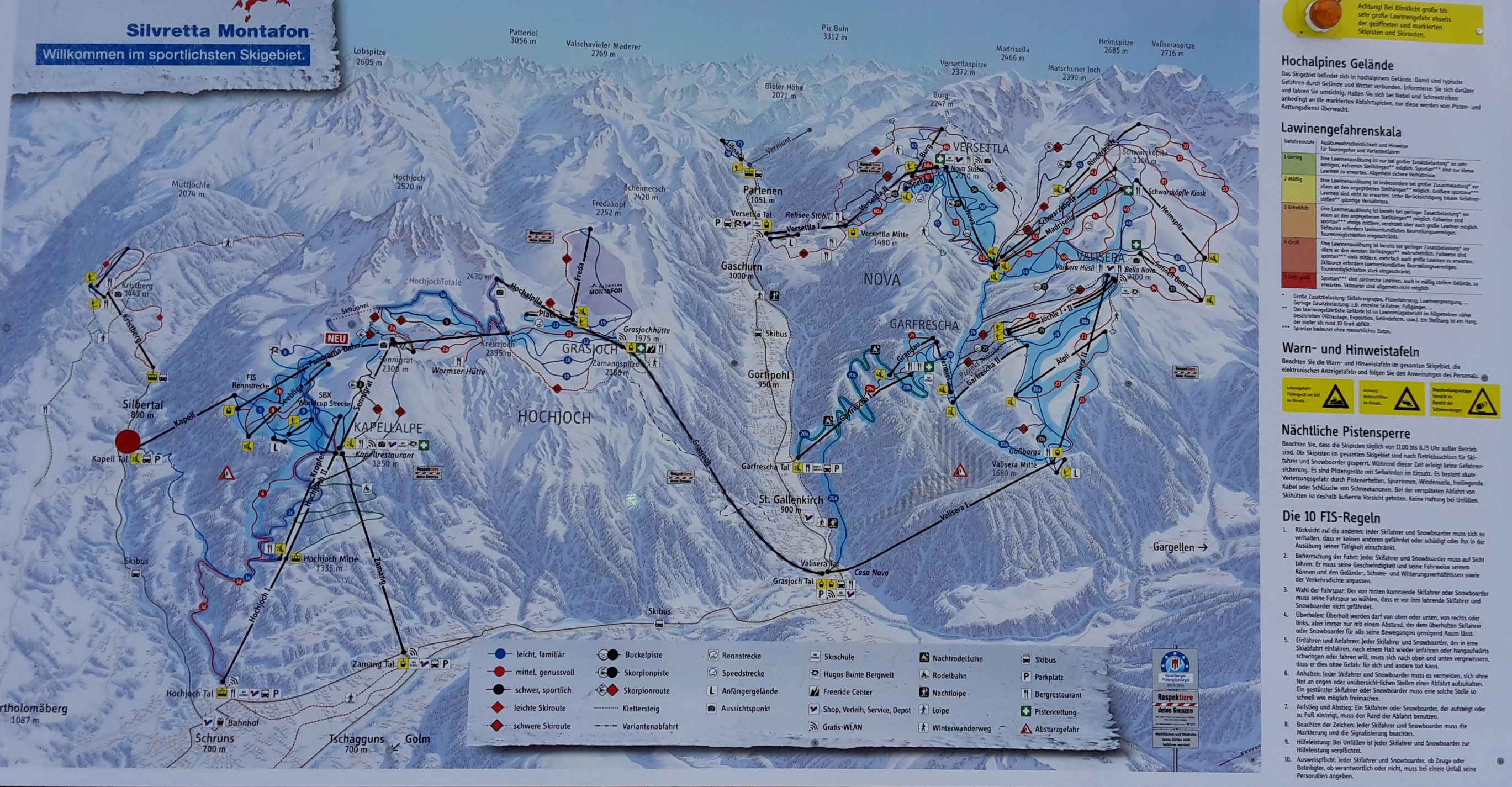 Information-board near the Kapellbahn. The Kapellbahn in Silbertal in Vorarlberg (Austria) is a two-seater chairlift, built in 1981 by Doppelmayr (Wolfurt). The ski area, which is accessed through the Kapellbahn, belongs to HochjochSilvretta-Montafon. The valley station is located at 855 masl and the mountain station at 1752 masl (altitude difference 897 m). Route distance 1889 m, Average incline 54,60% Largest incline 96,20%, with 22 columns. The maximum capacity is 656 people / hour with a travel time of 13.9 min and a speed of 2.3 m / s.